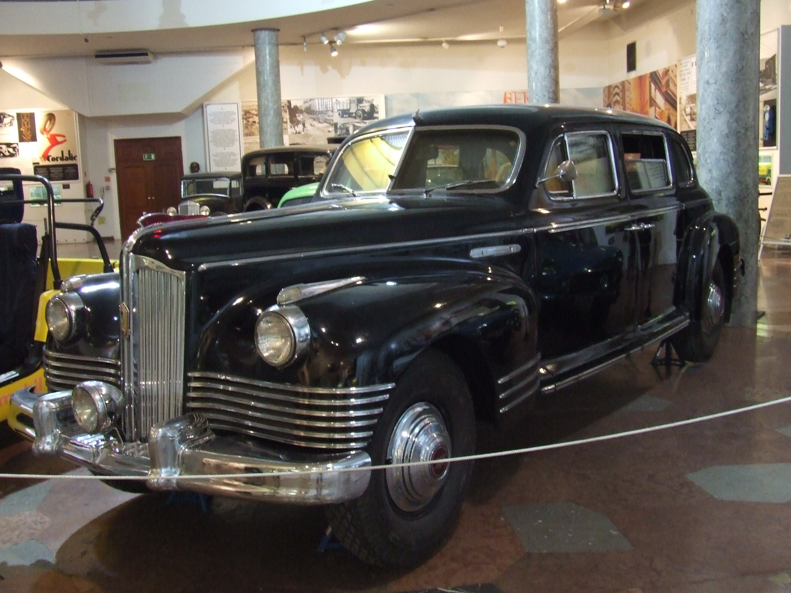 Budapest, Transport Museum 2015